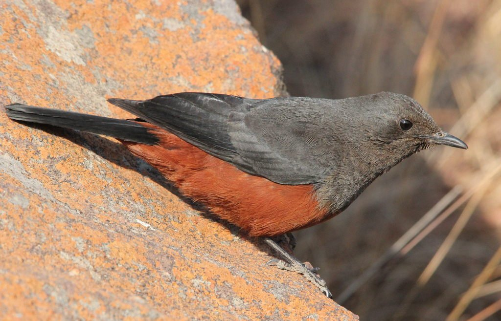 Mocking Cliff Chat, Myrmecocichla cinnamomeiventris --female-- at Marakele National Park, South Africa